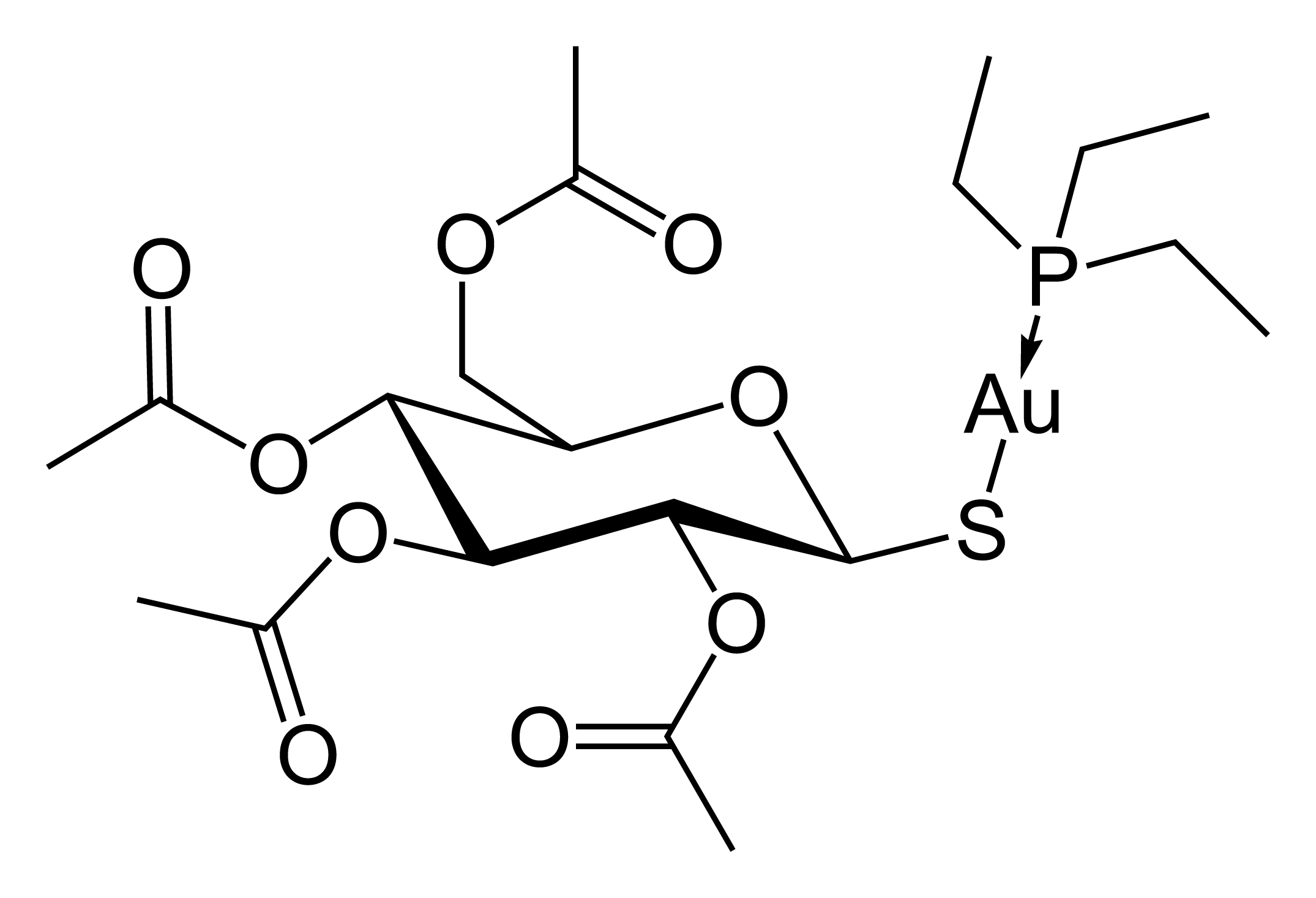 Skeletal formula of auranofin. Structure drawn in ChemBioDraw Ultra 12.0.